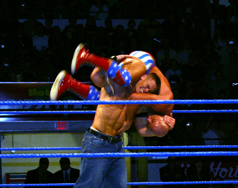 John Cena gives Kurt Angle his finishing F-U manuever on a WWE house show held in Kitchener, Ontario, Canada on January 15, 2005.cena v. angle